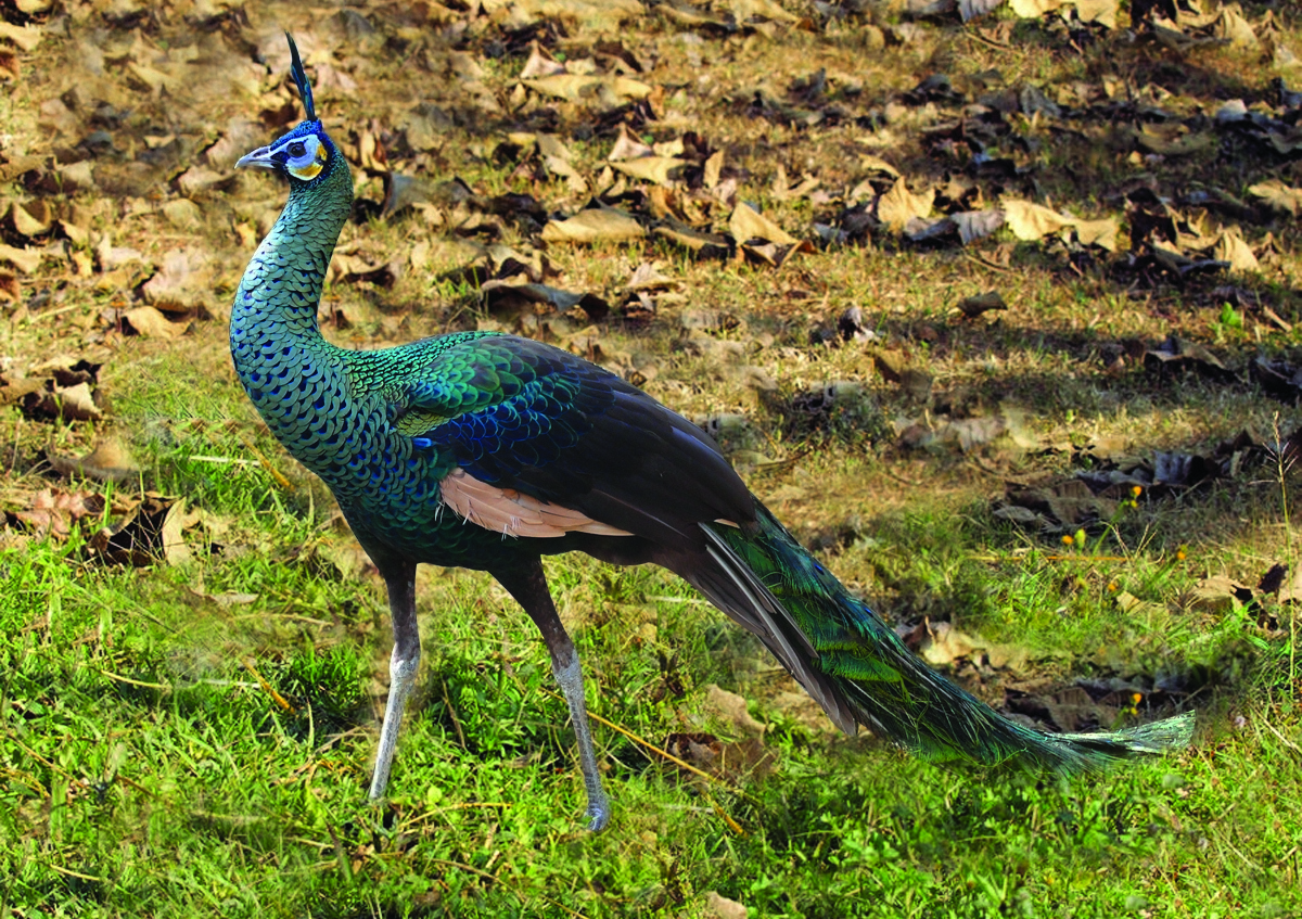 Green Peafowl (Pavo muticus) by Raju Kasambe. Photo taken in Imphal Zoo, Manipur, India. The photo is edited.